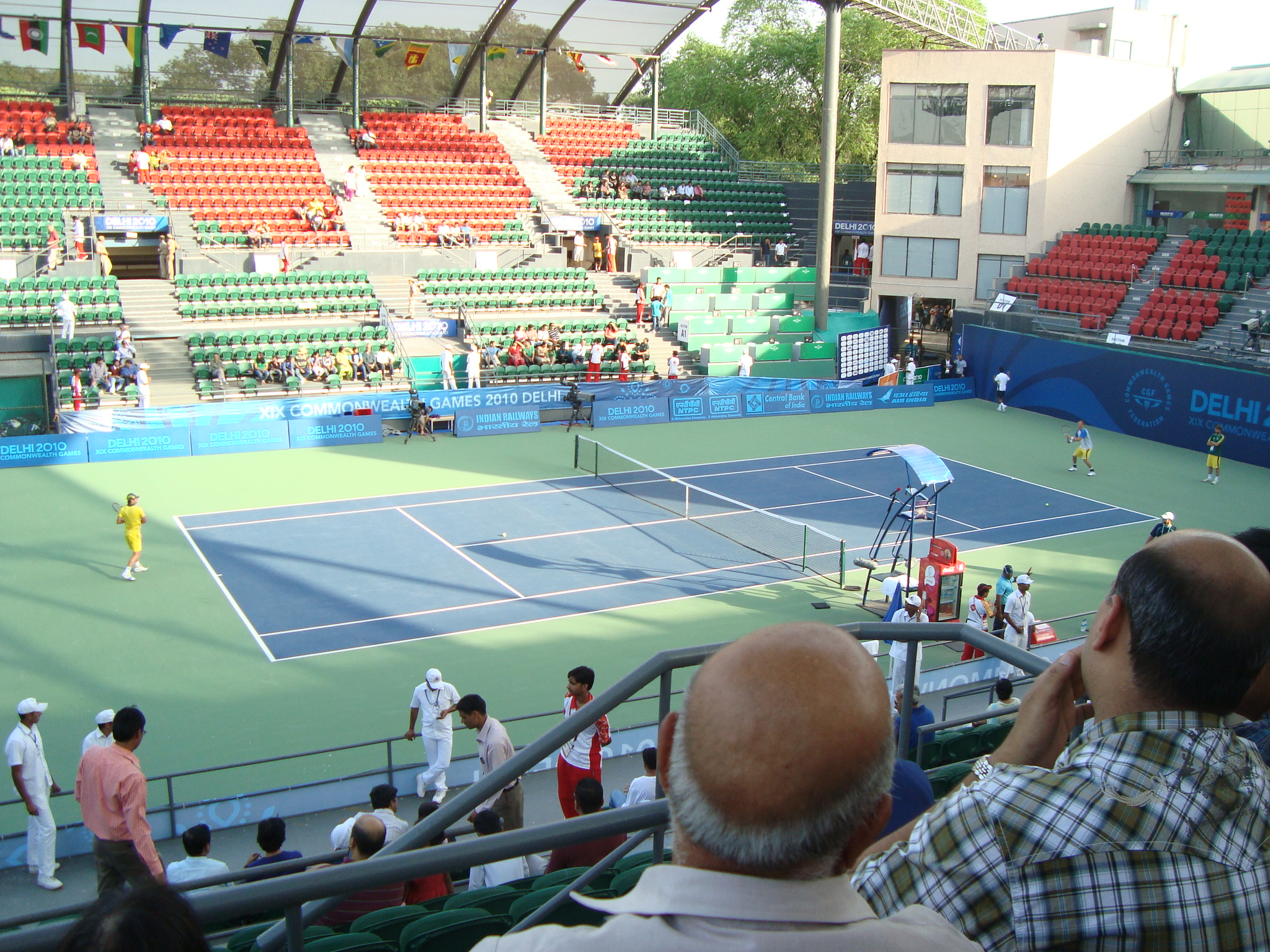 Centre Court of R.K. Khanna Tennis Complex, New Delhi, India. On the occasion of Commonwealth Games 2010